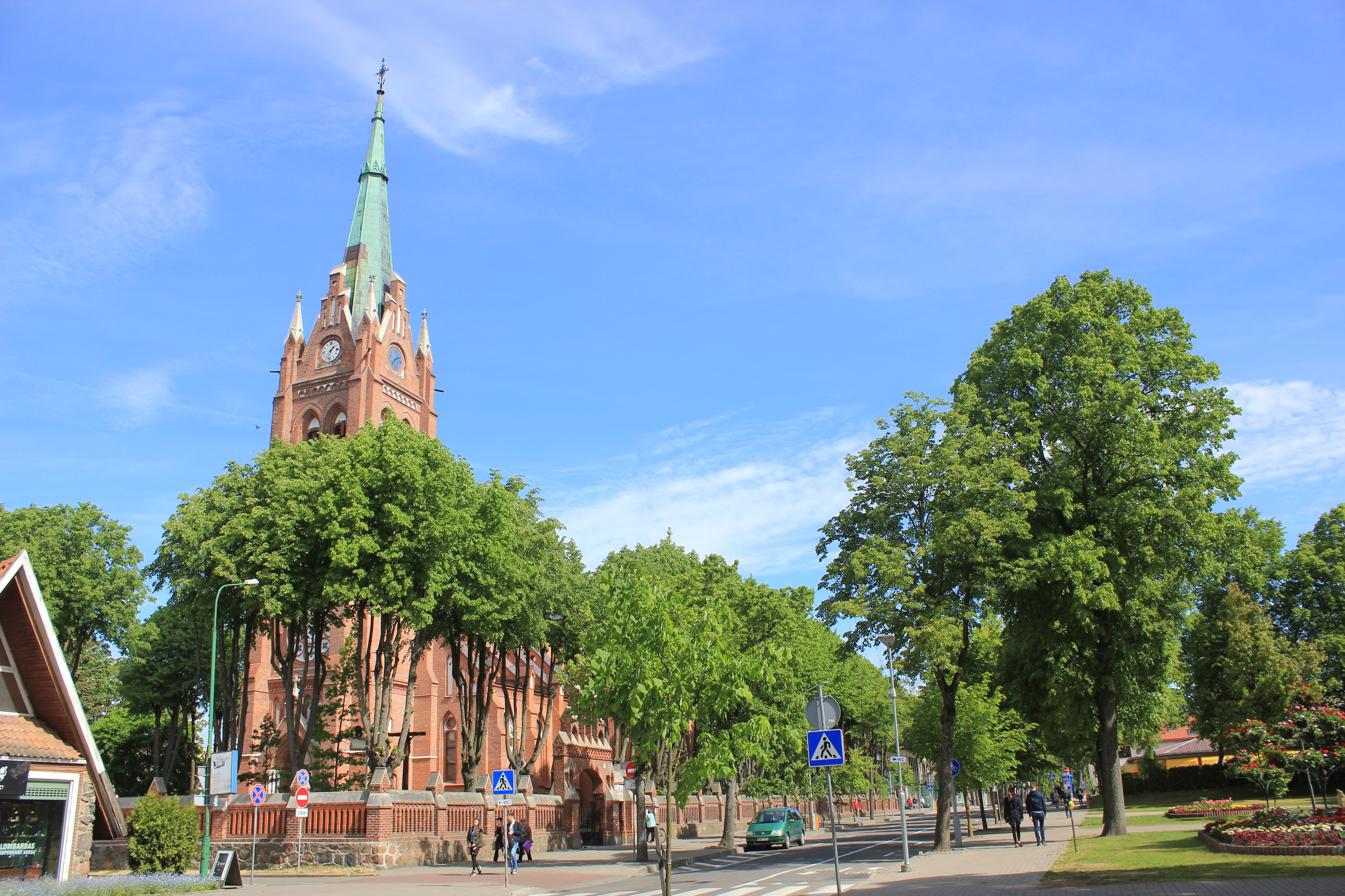 Palanga - Assumption of Virgin Mary church